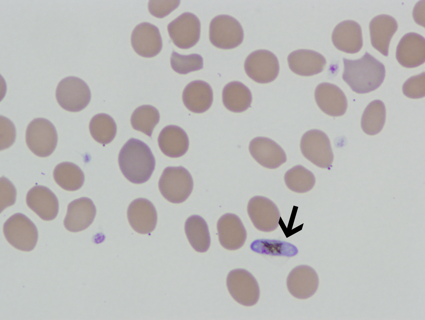 A Giemsa stained thin smear showing typical gametocyte of P. falciparum